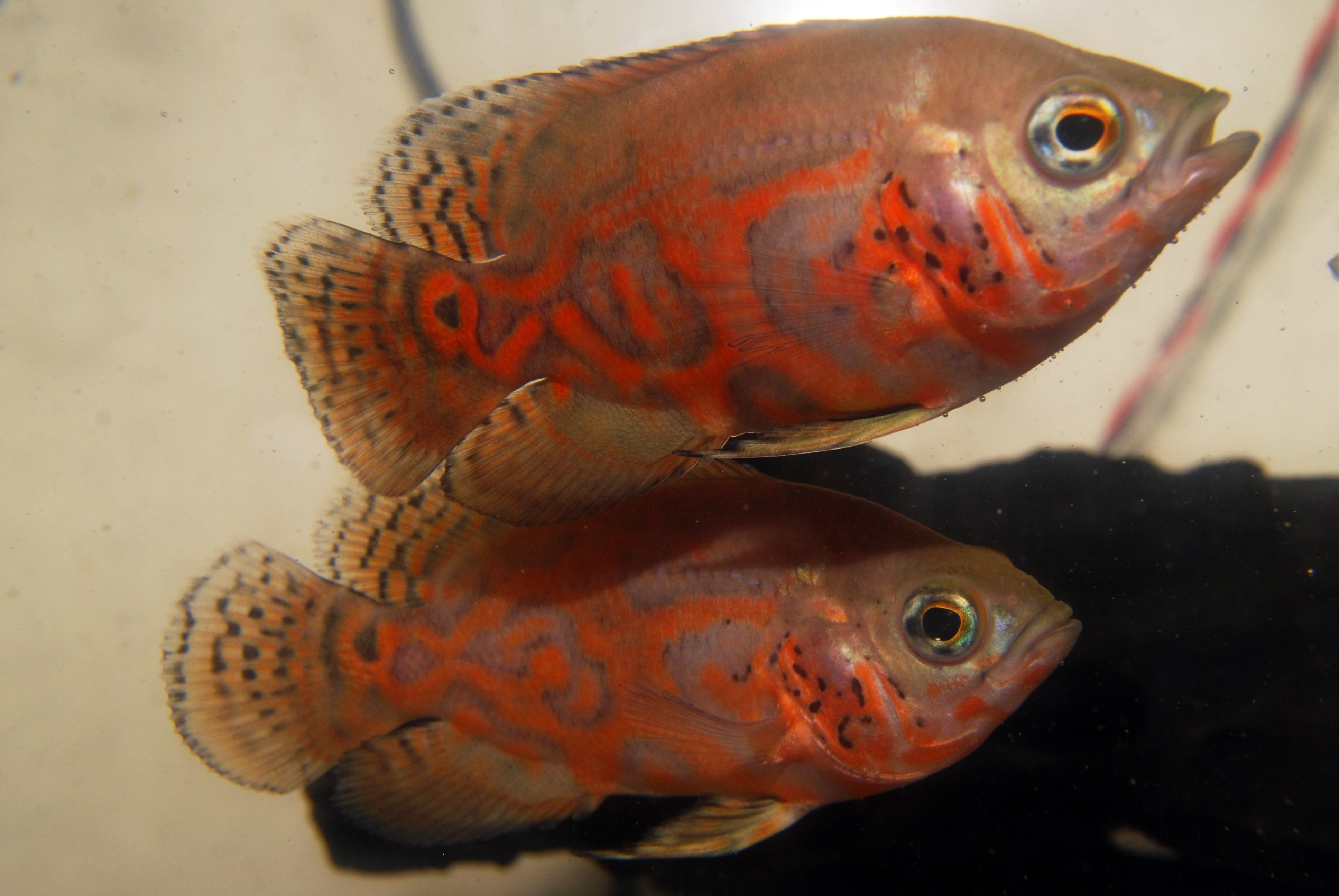 This is a picture of two Oscar Fish in a Fish Tank